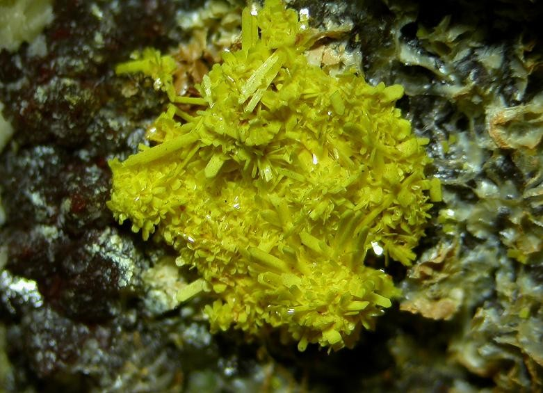 Bergenite Locality: Shaft 362, Mechelgrün, Plauen, Vogtland, Saxony, Germany Beautiful Bergenite crystals from Shaft 362, Mechelgrün, Saxony, Germany. Field of view 7 mm. Photo and specimen Leon Hupperichs.